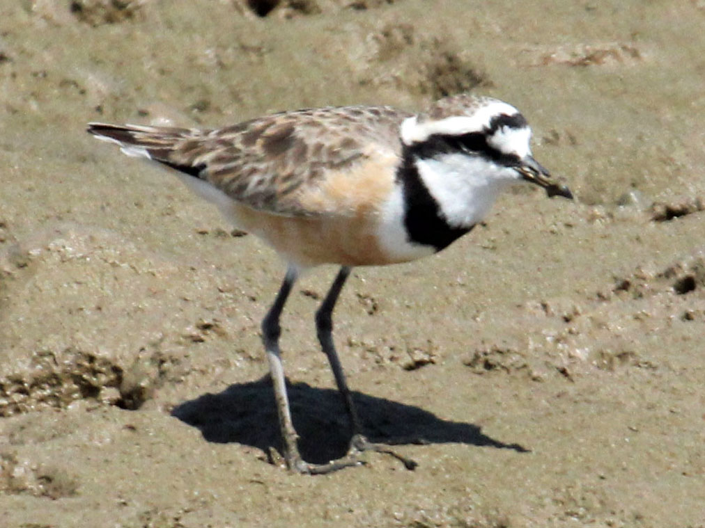 Madagascar Plover (Charadrius thoracicus) - Morondava, Madagascar